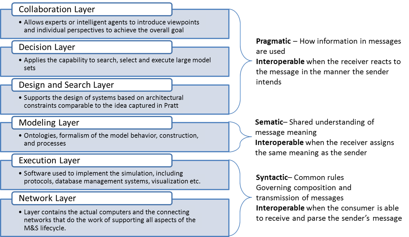 Graphical Representation of Ziegler's Linguistic Levels of Interoperability and the three technical levels